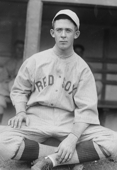 Major League Baseball player Hal Janvrin of the Boston Red Sox.